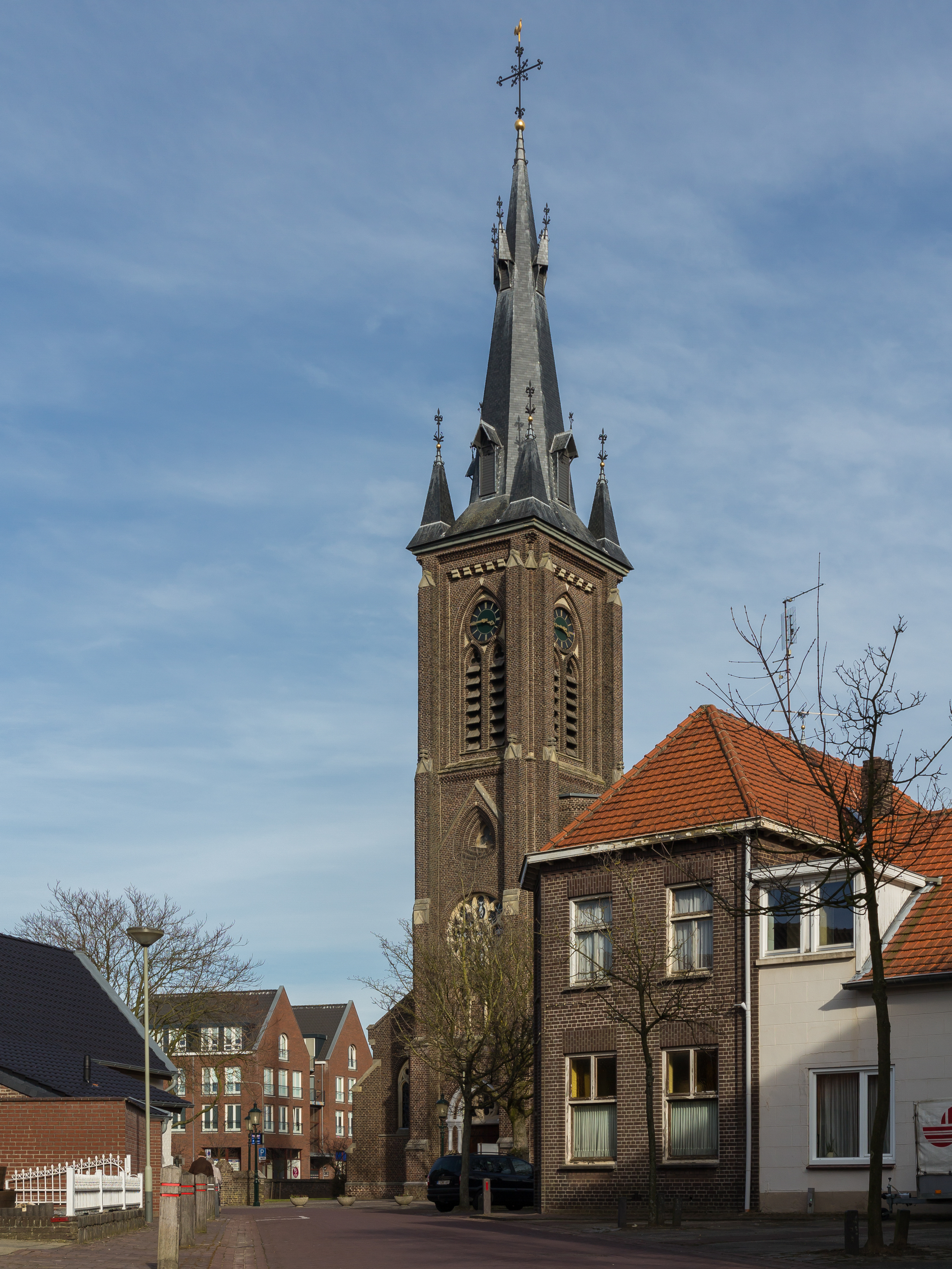 Pey, church: de O.L.V. Onbevlekt Ontvangen-kerk